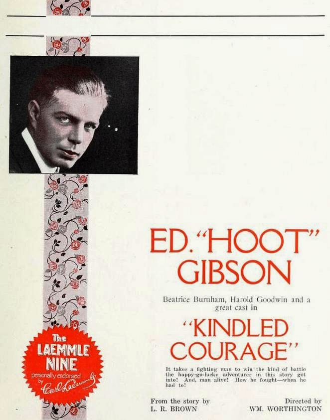 Ad for the American western film Kindled Courage with Hoot Gibson, on page 27 of the December 2, 1922 Universal Weekly.